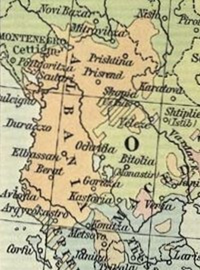 Ethnic distribution of Albanians in the Balkans as of early 20th Century.